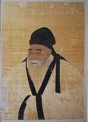 Korea-Portrait of Song Si-yeol in 1697